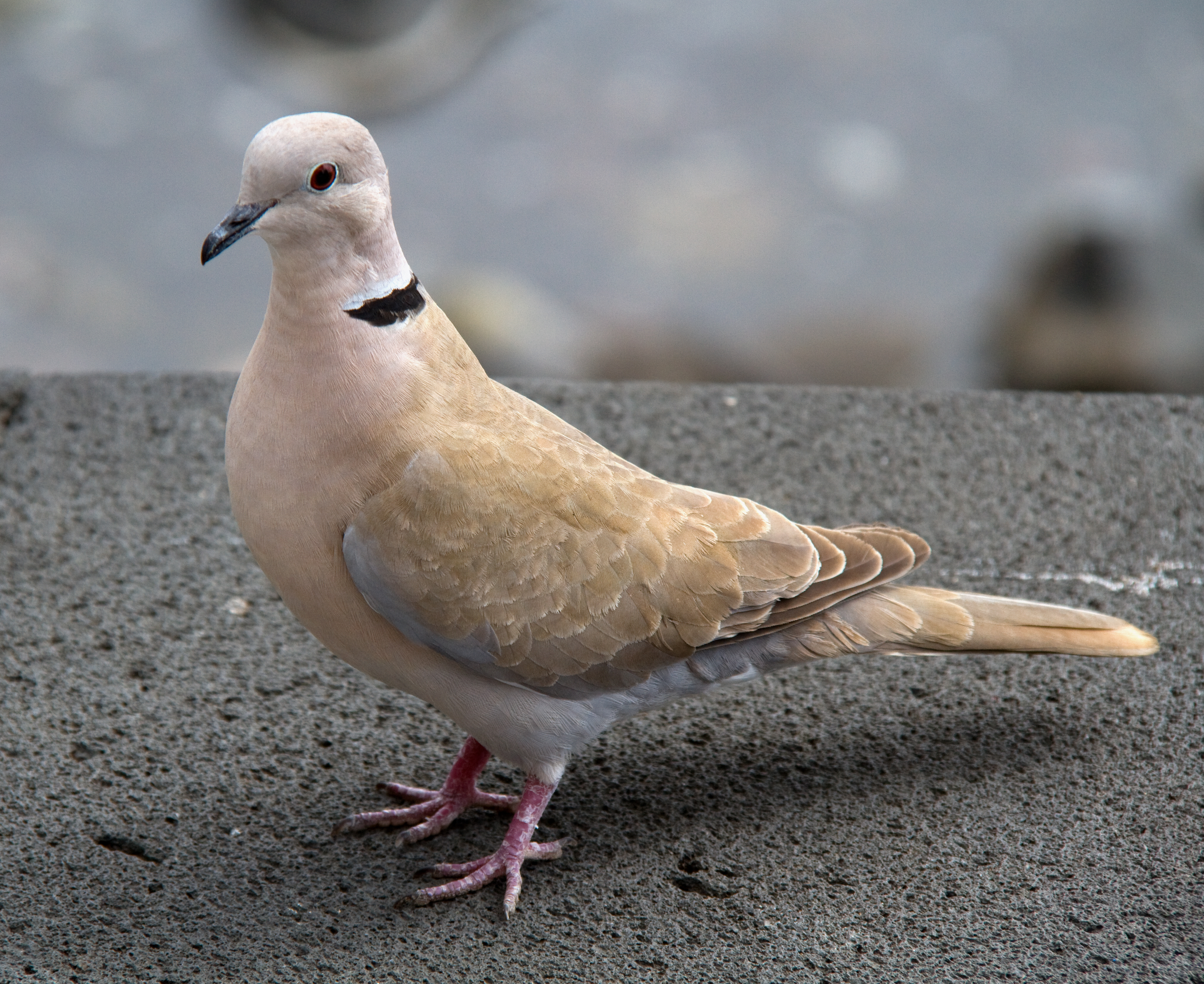 Collard Dove